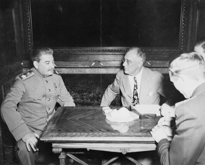 The Yalta Conference, 1945 Marshal Stalin (left) talks to President Roosevelt as they sit at a desk at Livadia Palace, where the Yalta Conference is taking place.